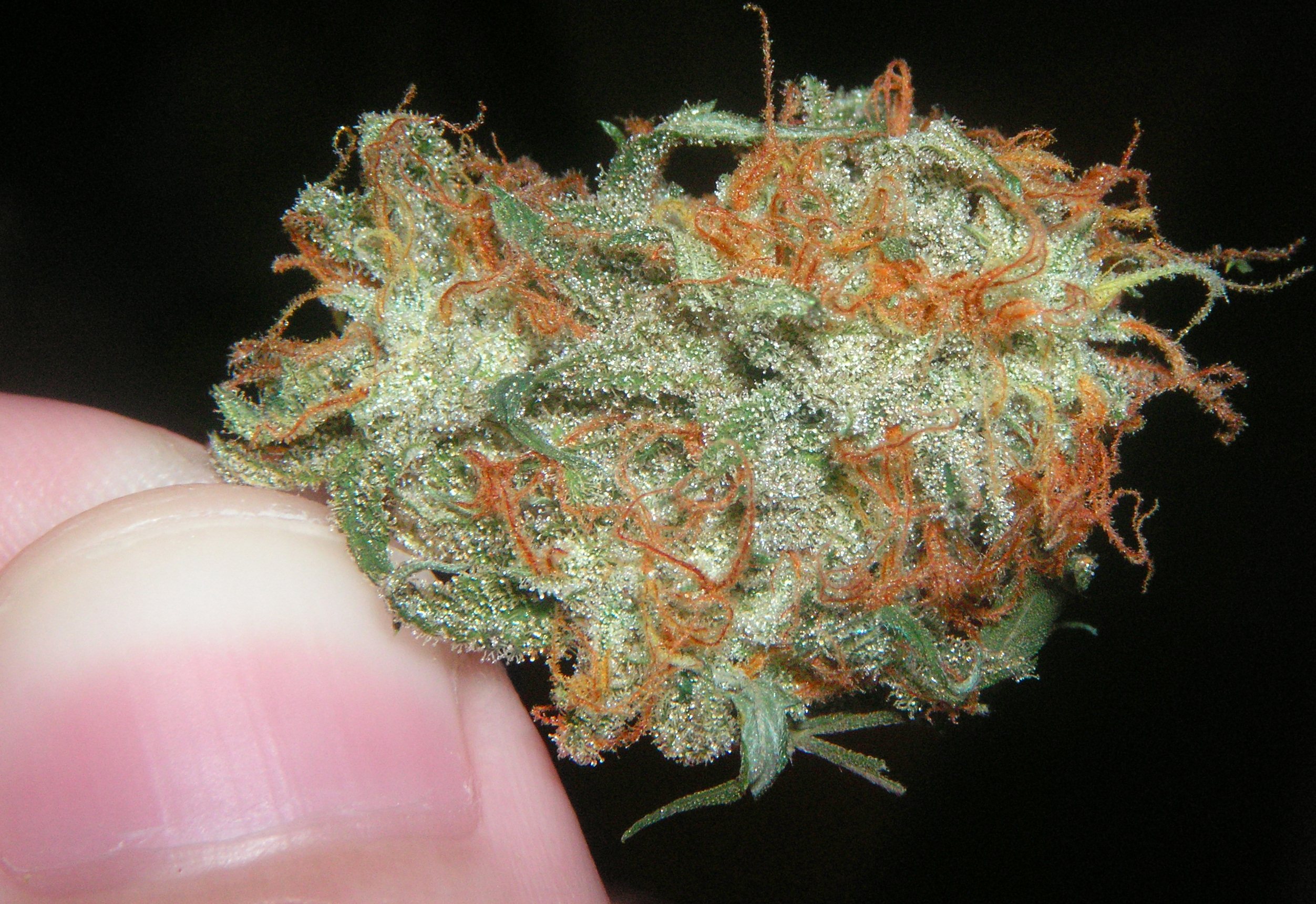 Super Silver Haze: Kolkata Variation